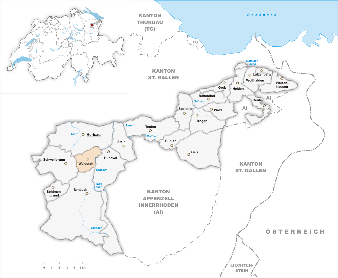 Municipality of Waldstatt